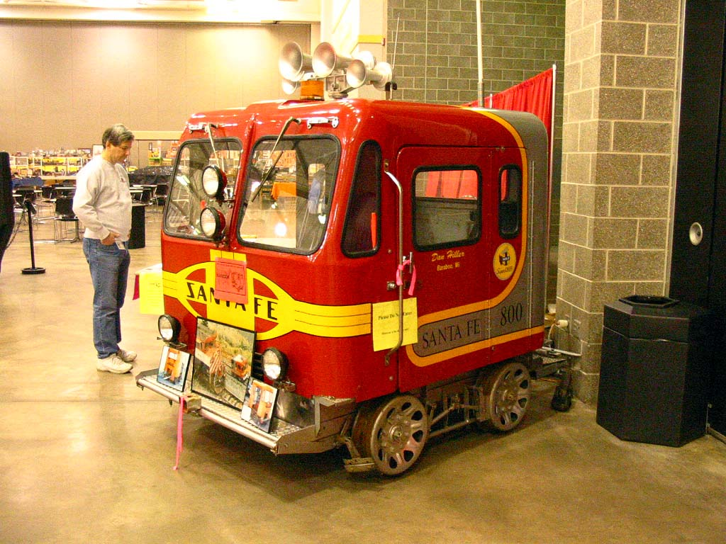 A privately-owned speeder on display at the Mad City Model Railroad Show and Sale in Madison, Wisconsin, February 2004.